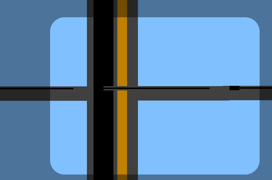 See for description.